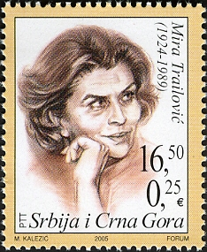 Famous People of Serbian Theatre - Mira Trailovic